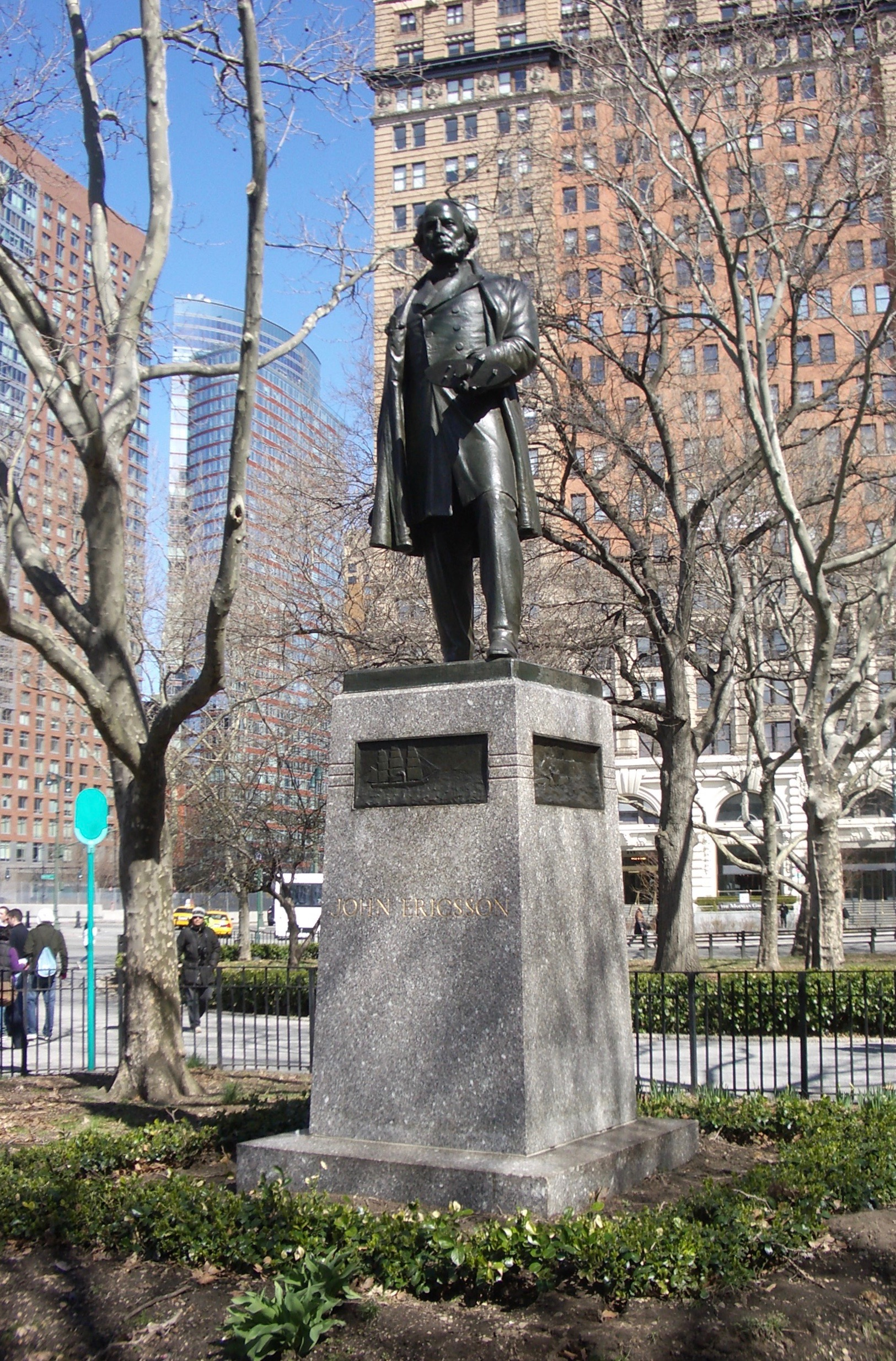 John Ericsson, (July 31, 1803 – March 8, 1889), was a Swedish-American inventor and mechanical engineer, as was his brother Nils Ericson. He was born at Långbanshyttan in Värmland, Sweden, but primarily came to be active in England and the United States. He is remembered best for designing the steam locomotive Novelty (in partnership with engineer John Braithwaite) and the ironclad USS Monitor.